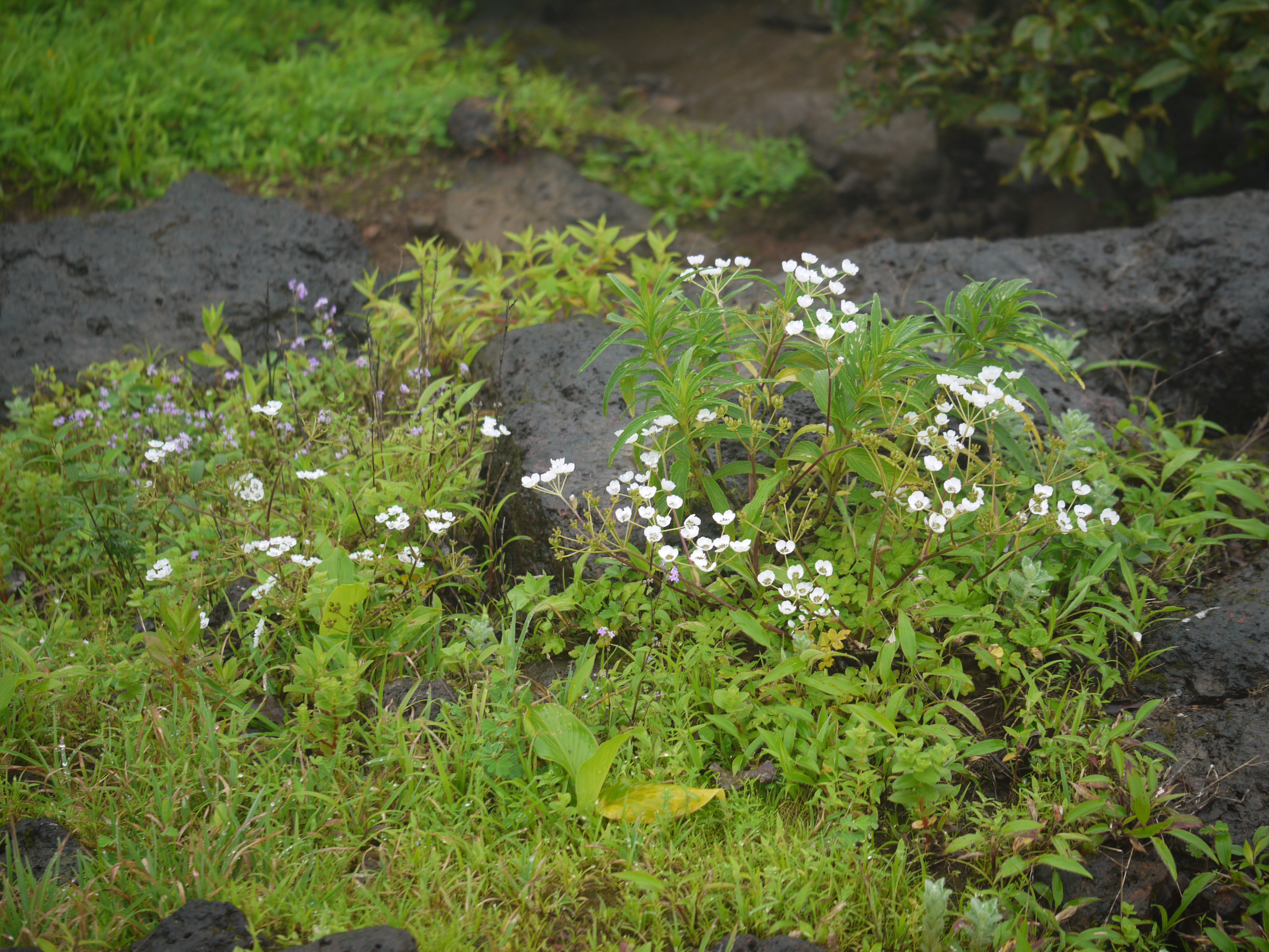 Apiaceae (carrot, umbellifer family) » Pinda concanensis ¿ PIN-duh ? -- from the vernacular name panda (Marathi: पंद) ¿ kohn-CAN-en-sis ? -- of or from Konkan (coast of Maharashtra, India) commonly known as: cow parsnip, Konkan pinda, Konkan umbellifer • Marathi: पंद pand Endemic to: Western Ghats (of Maharashtra, India) References: Flowers of India • The Gazetteers Dept. • Flowers of Sahyadri by Shrikant Ingalhalikar